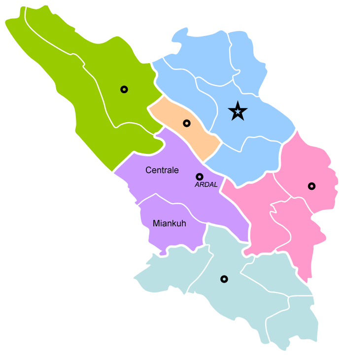 Map of Ardal sharestan in Chahar Mahal and Bakhtiari province, Iran